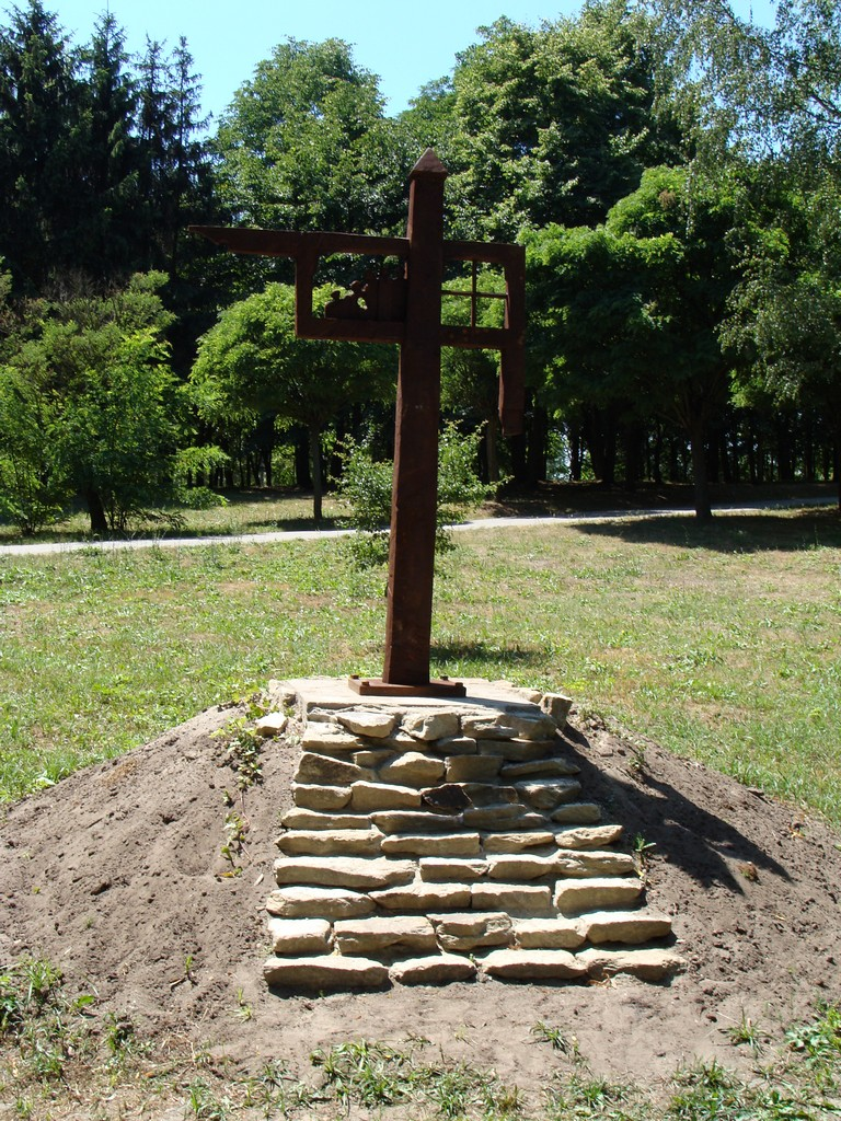 Śrem, Park of Founders.